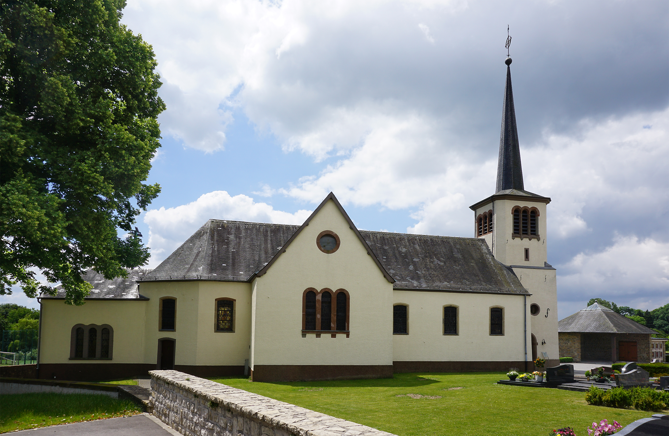 Church of Rambrouch